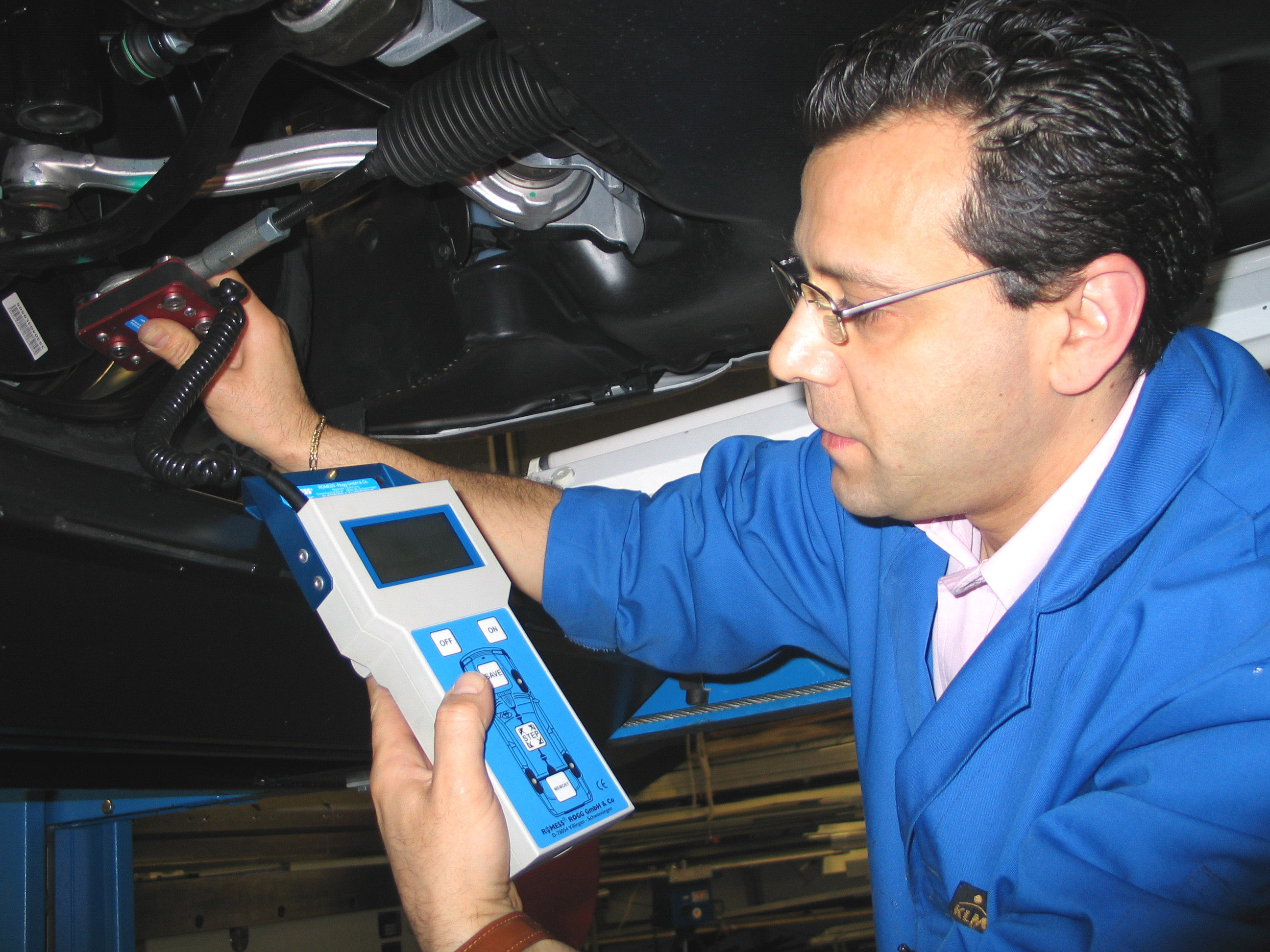 A mechanic is collecting data with an electronic propellershaft and buckling angle device made by the german manufacturer Romess.